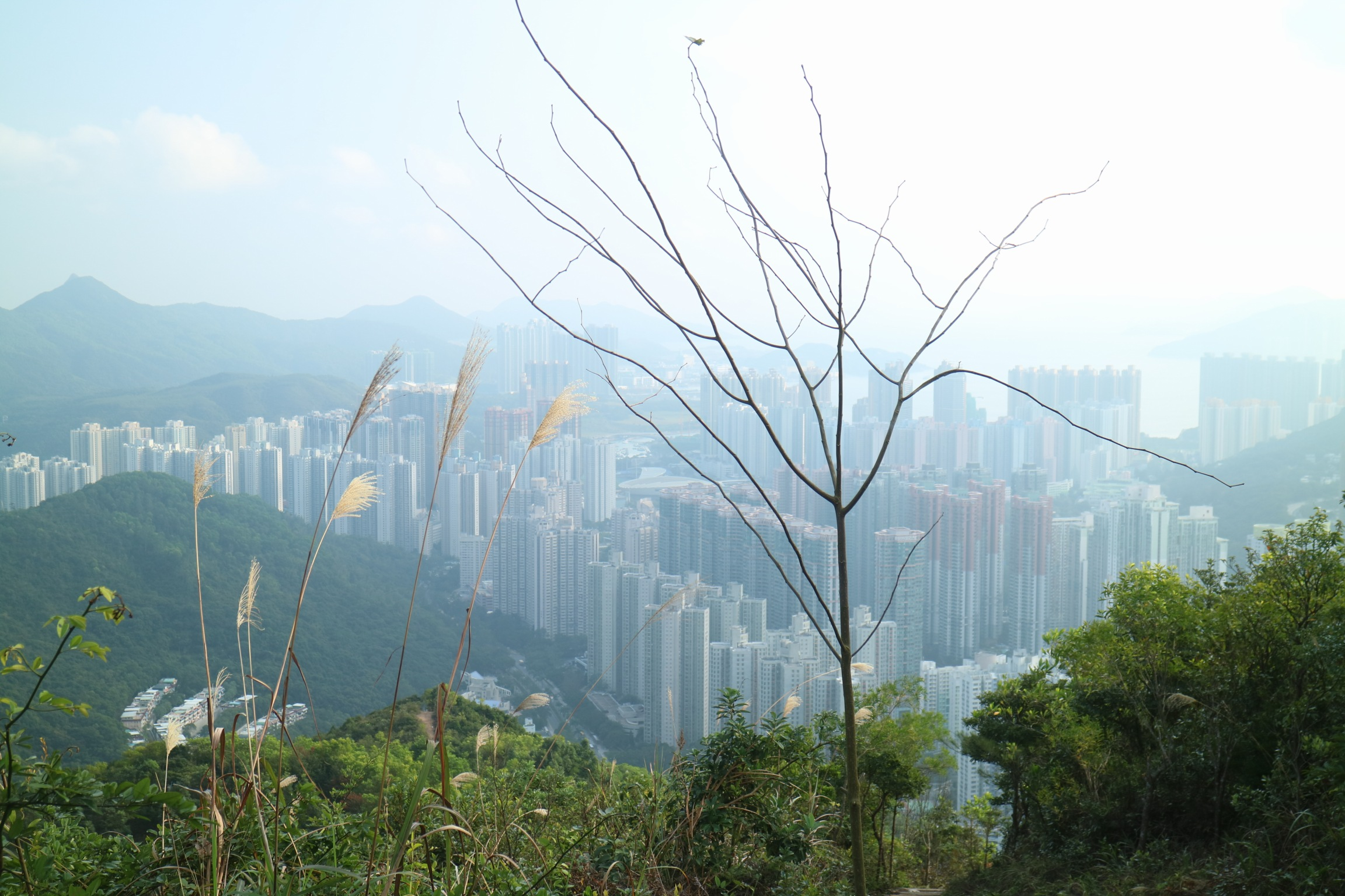 The south views from Razor Hill.